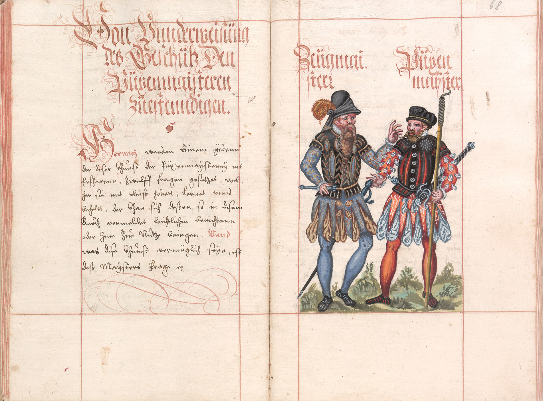 Feuerbuch (Book about explosives), MS Codex 0109, fol. 67v-68r, ink and tempera on parchment, 307 x 199 mm